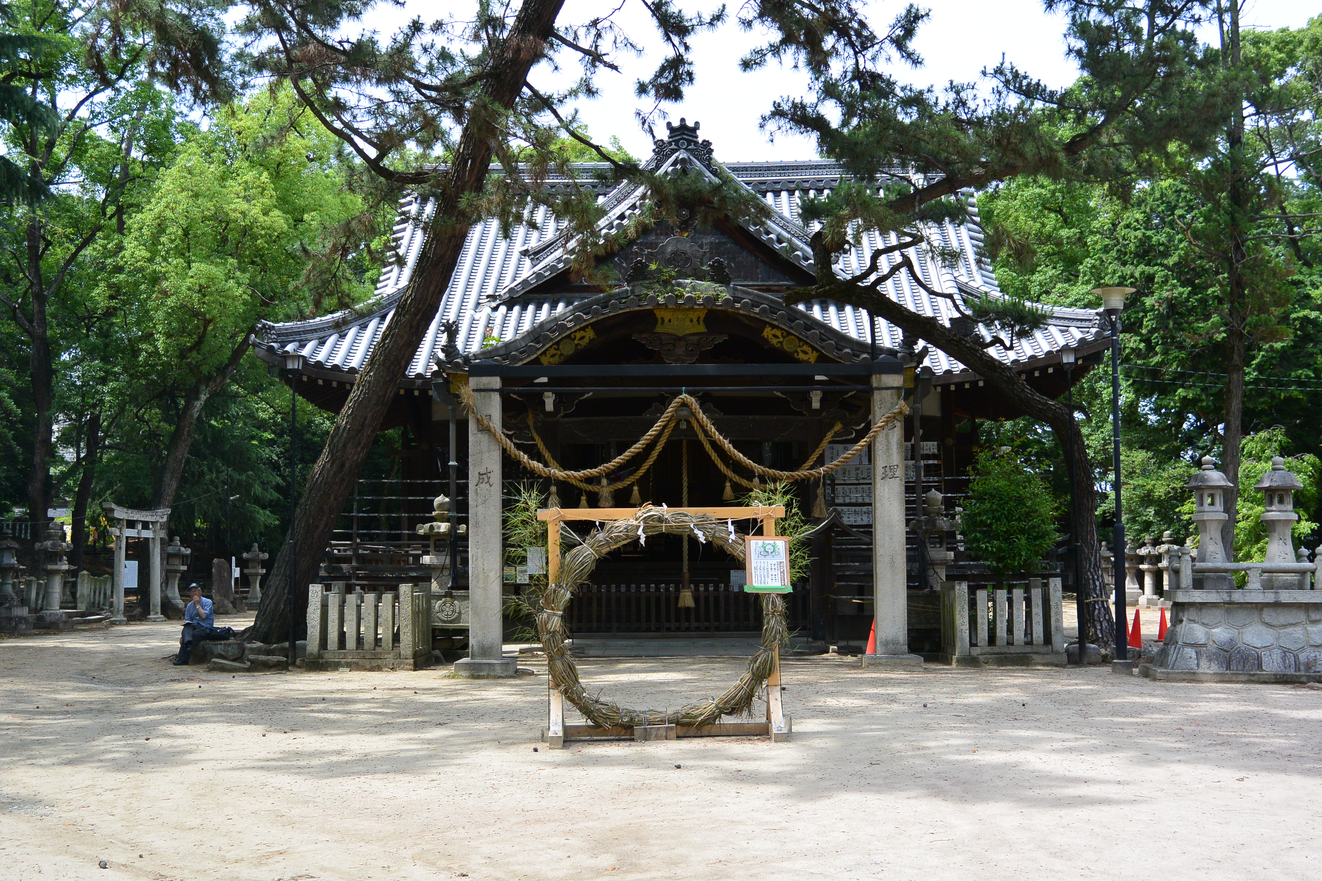 Glass ling for summer festival at Inano-shrine Itami Japan